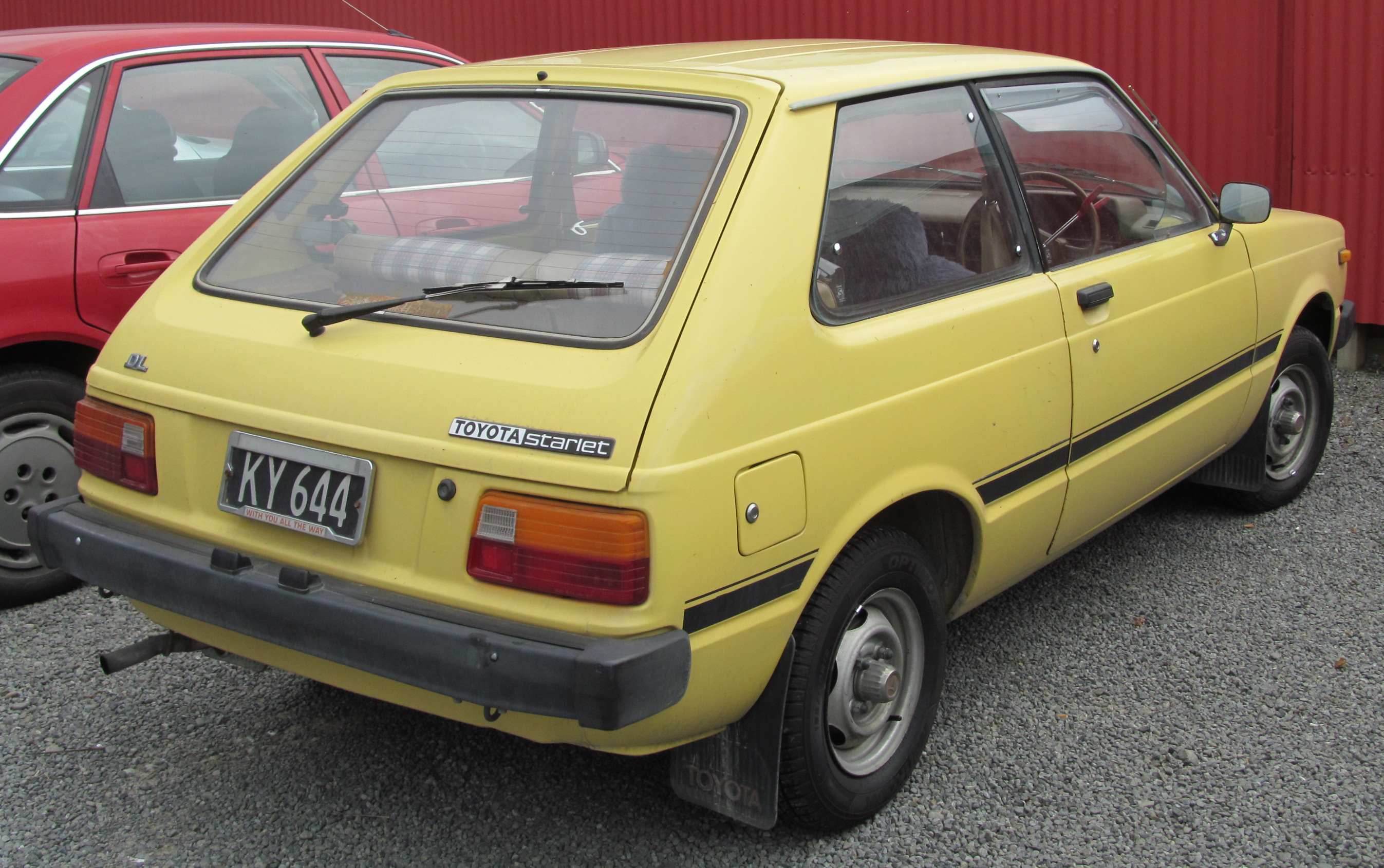 Totally original, right down to the mudflaps and sunbaked dealer sticker. When I took this photo on Thursday I thought it had to be a one owner car, but I saw it again this morning (Sunday) being driven by a young man! There you go.